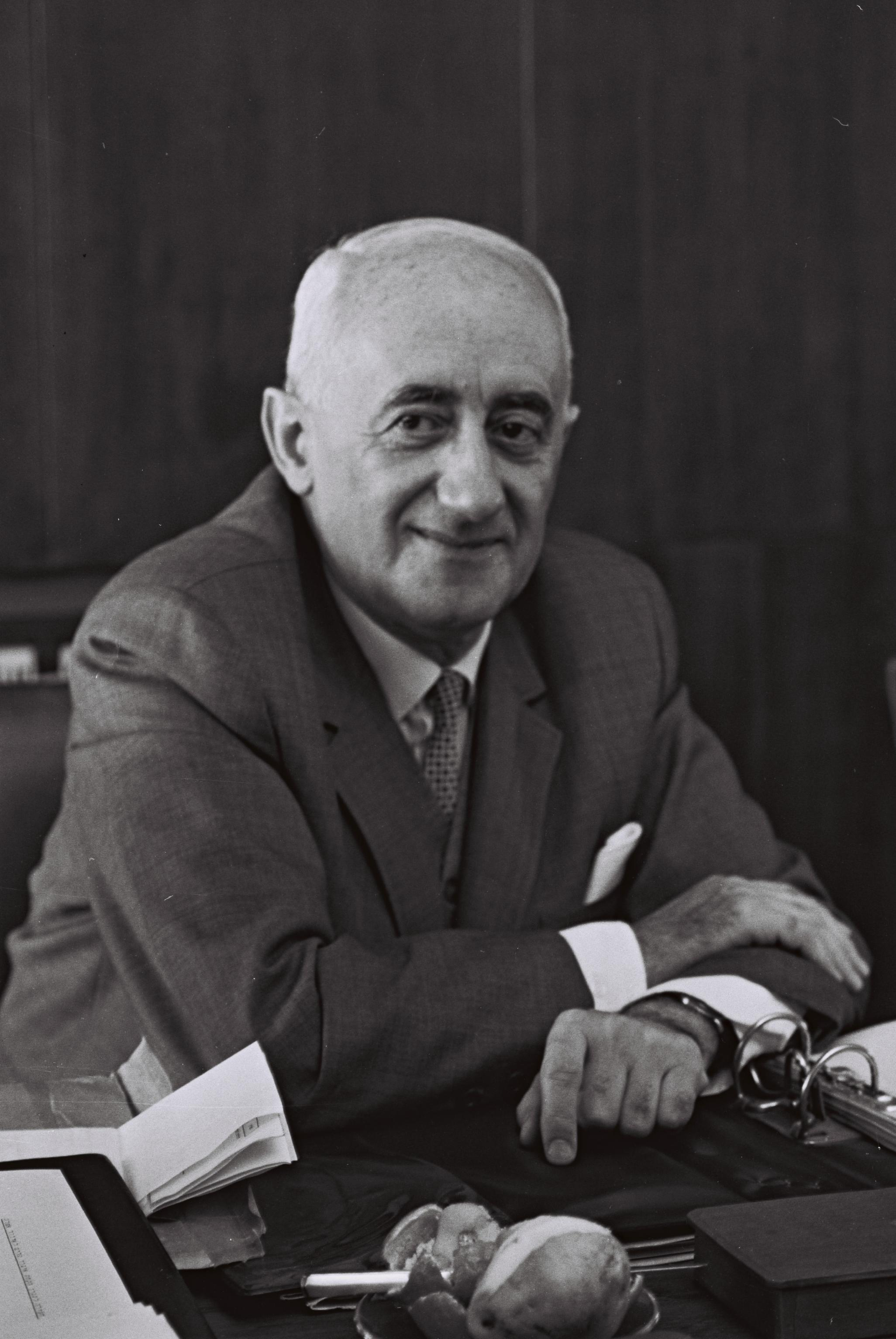 Minister of development Moshe Kol (Independent Liberals).